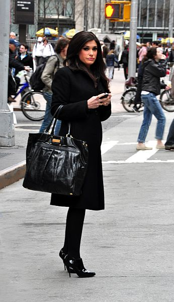 Fox News Contributor Kimberly Guilfoyle sighted outside News Corp on April 22, 2011 at 6th Ave & 47th Street in New York City. (Photo Nick Stepowyj)